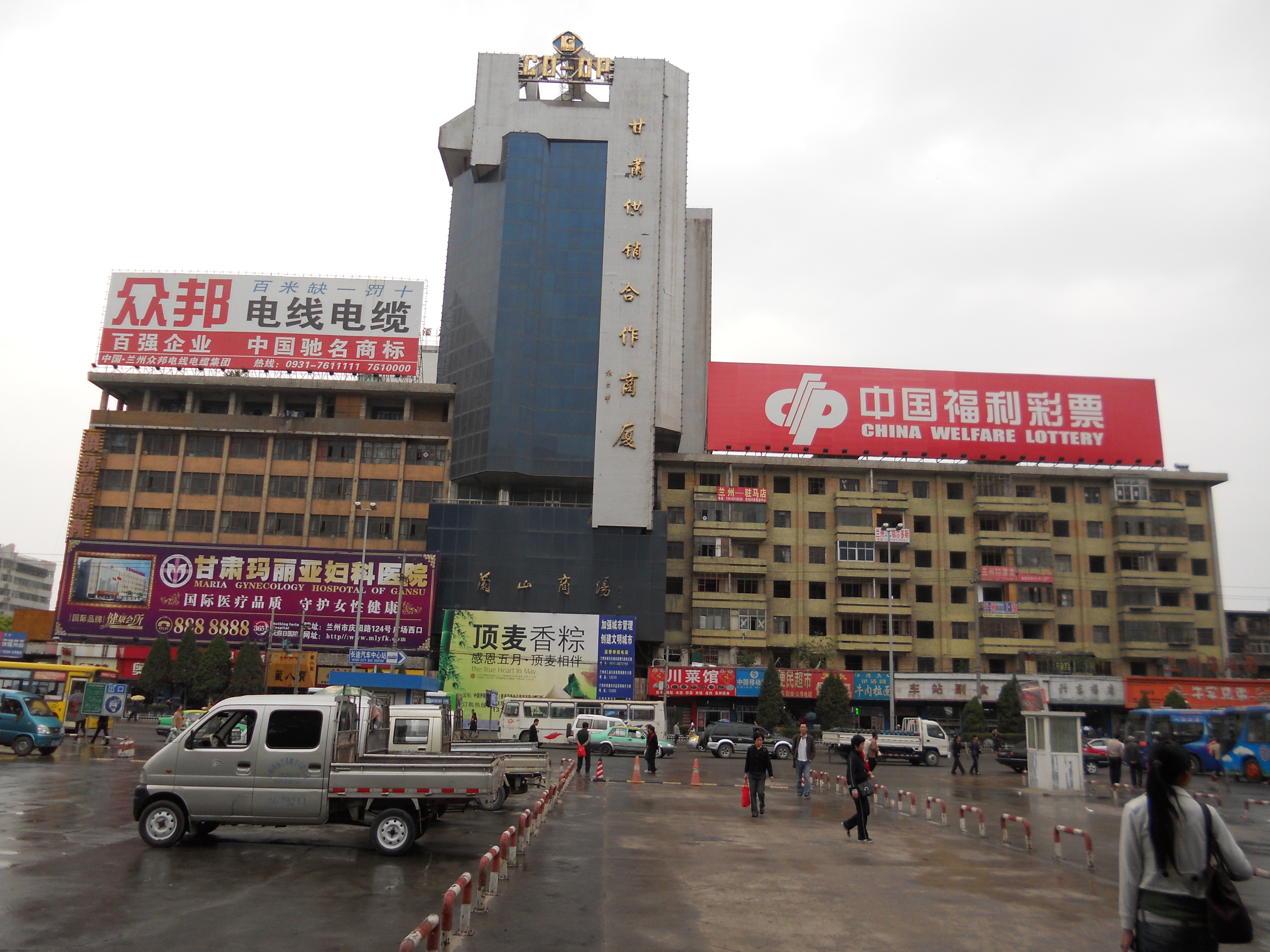 Building Outside LAN ZHOU Railway Station, June 7, 2010